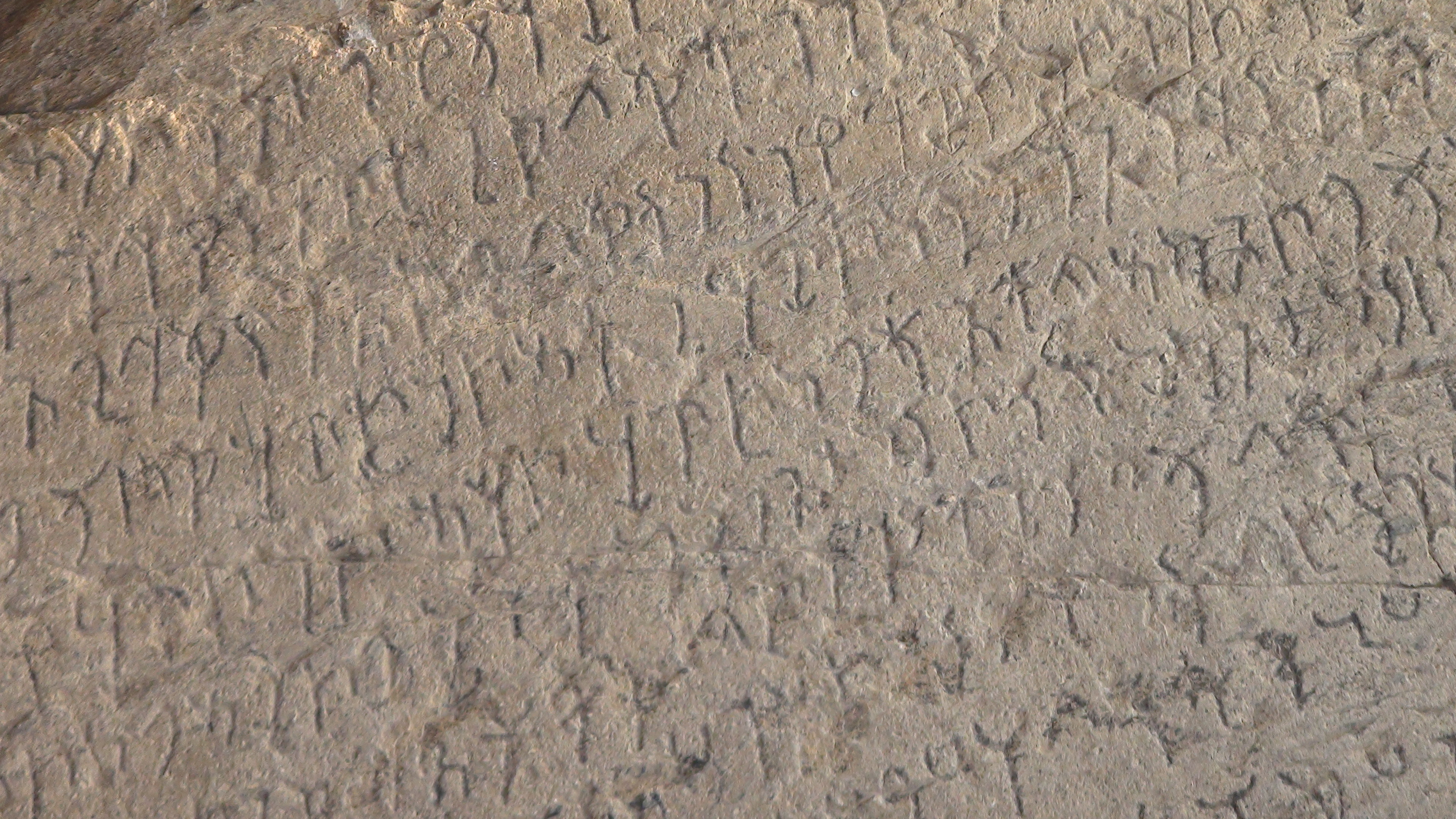 Fourteen rock edicts of Ashoka inscribed on two rocks in Shahbazgarhi This is a photo of a monument in Pakistan identified as the KPK-33